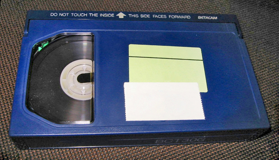 SONY Video Tape BCT-30G for BETACAM